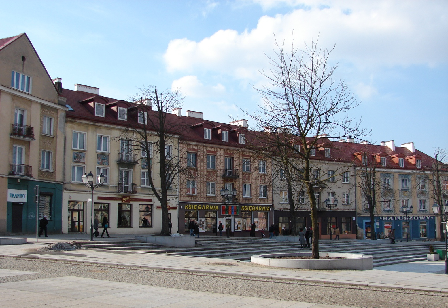 Buildings on Rynek Kościuszki in Białystok